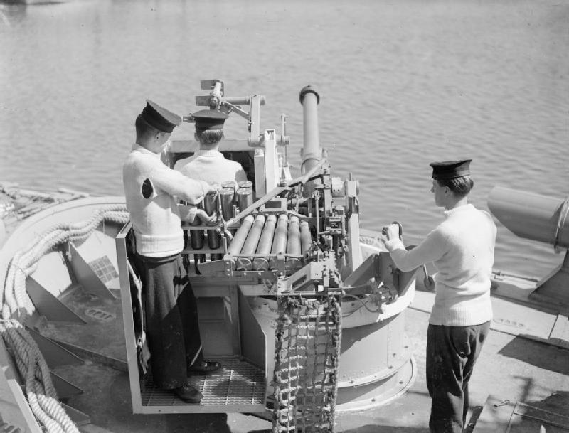 Molins autoloader and 6-pounder gun on a D-Class Motor Torpedo Boat. See also File:Molins autoloader and 6-pounder gun WWII IWM A 25162.jpg